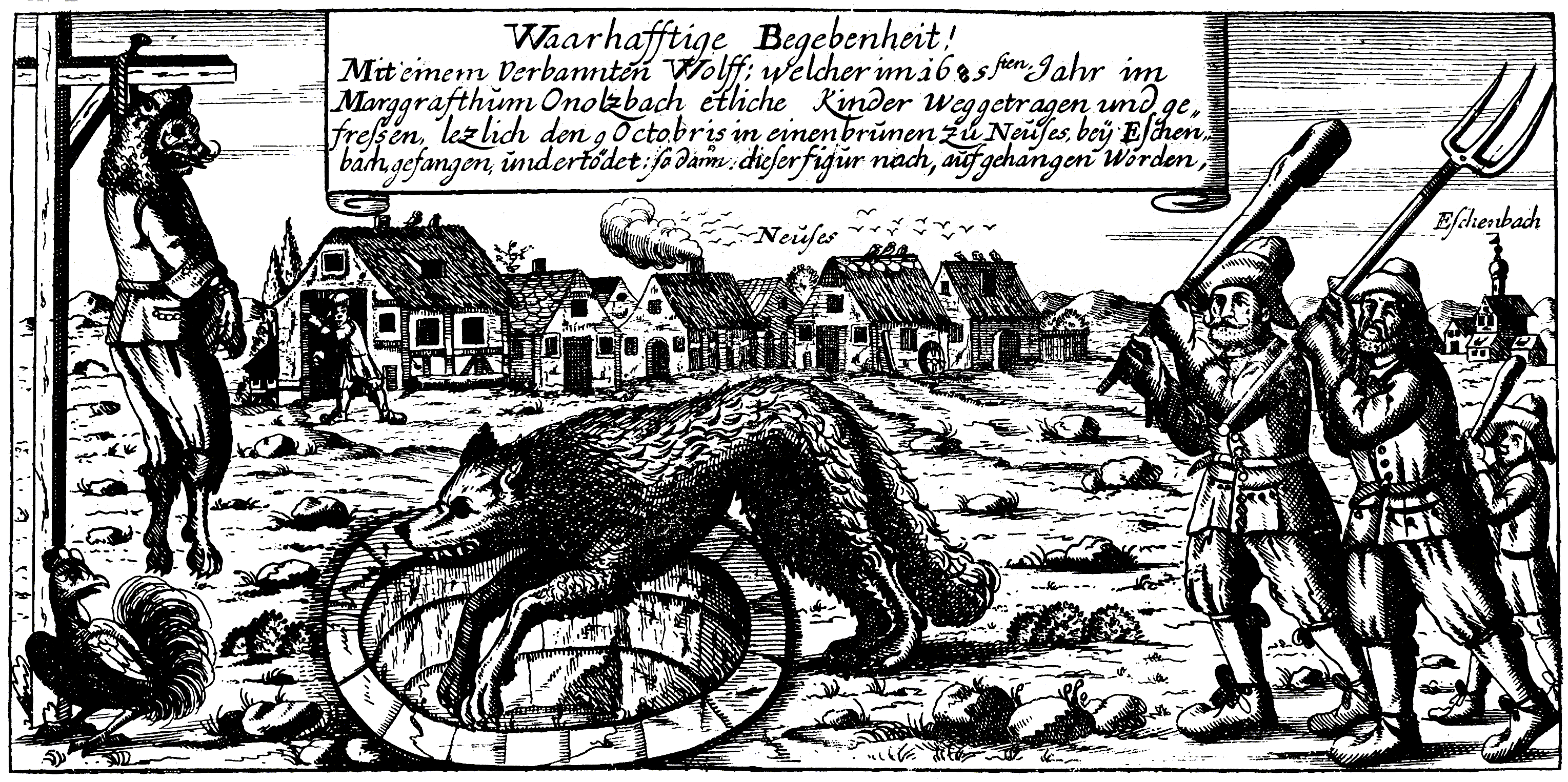 Hunting and display of the wolf of Ansbach